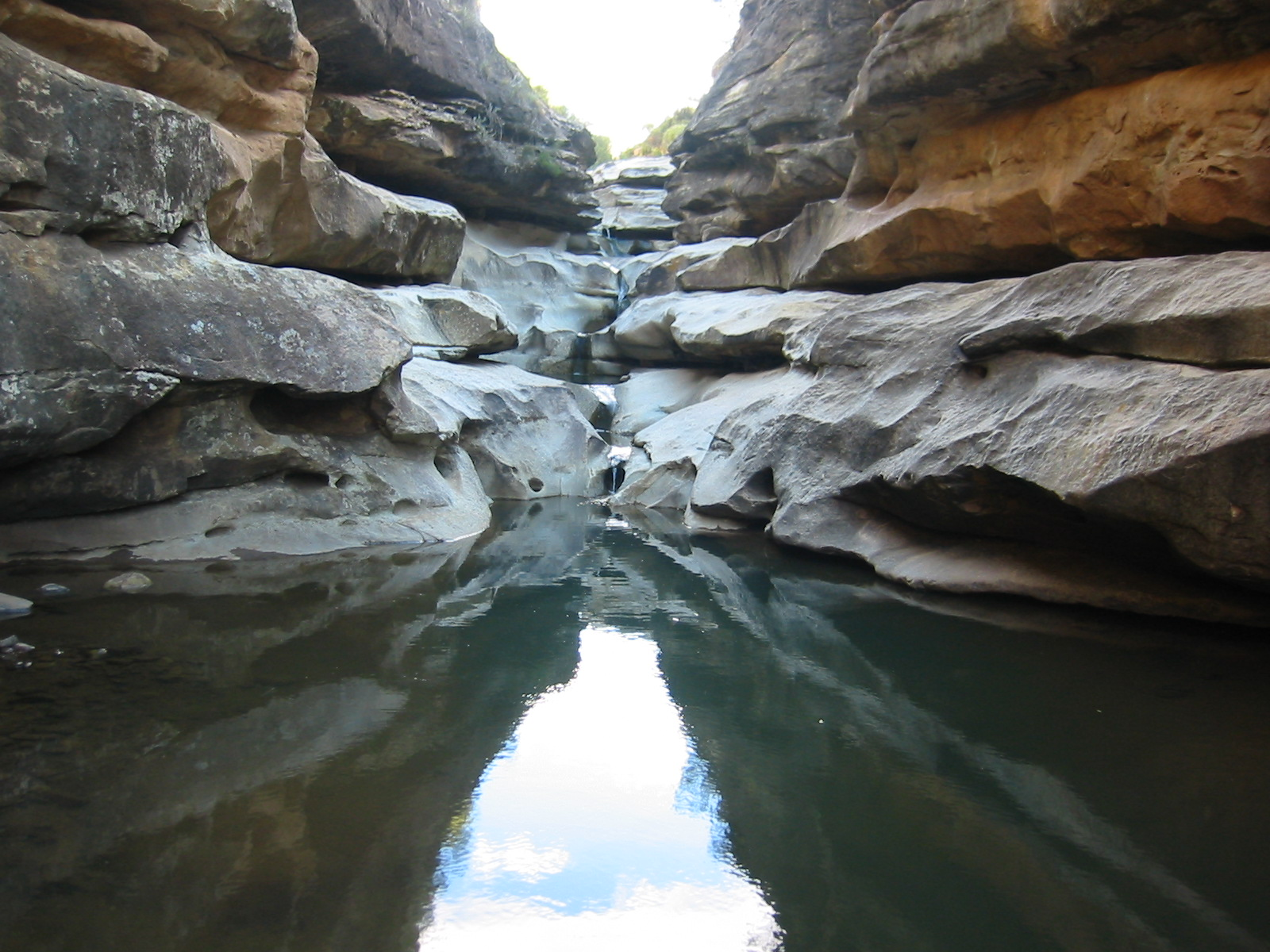 Gorge: This is what they call a gorge in Lesotho. It was just about a one-hour walk from the Malealea-lodge.